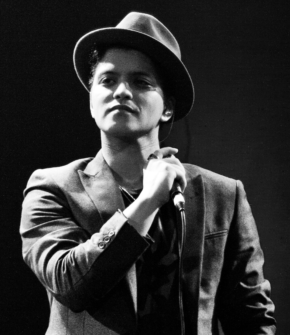 Bruno Mars performing in Houston, Texas on November 24, 2010